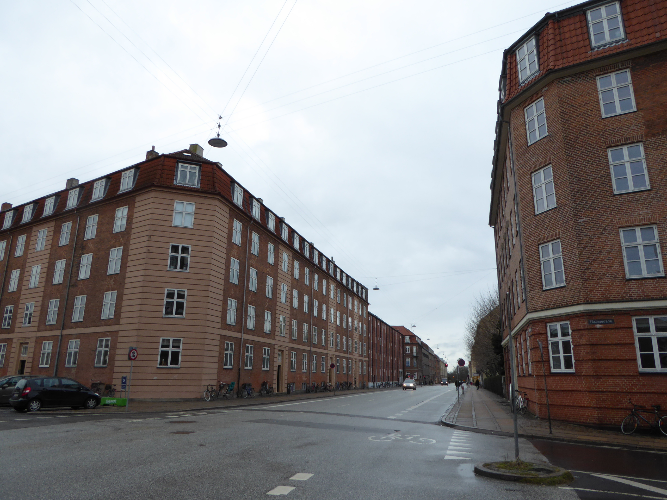 The street Vennemindevej at Tåsingegade in Østerbro in Copenhagen.